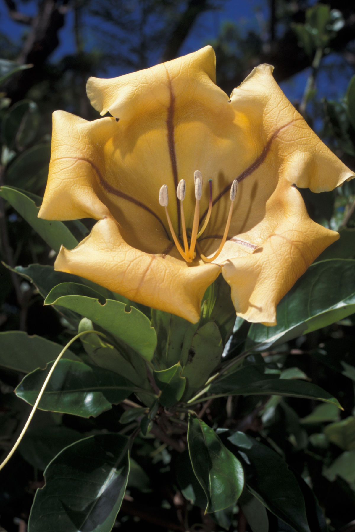 Solandra maxima (flower). Location: Maui, Makawao